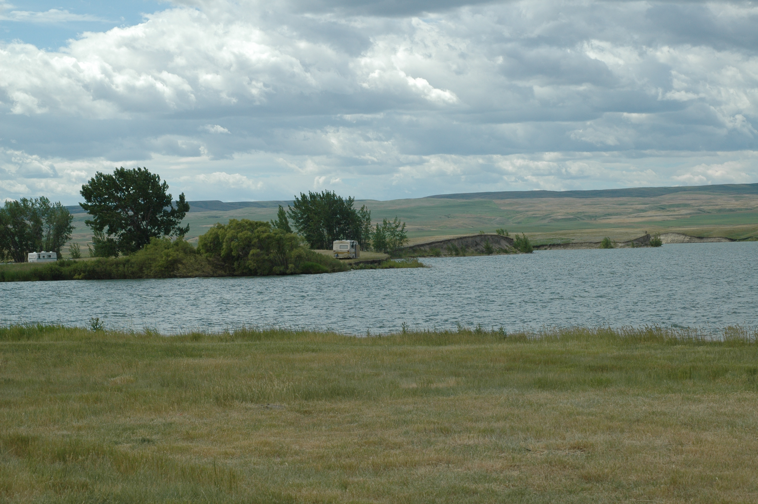 Looking East across the Milk River Ridge Reservoir, July 2019